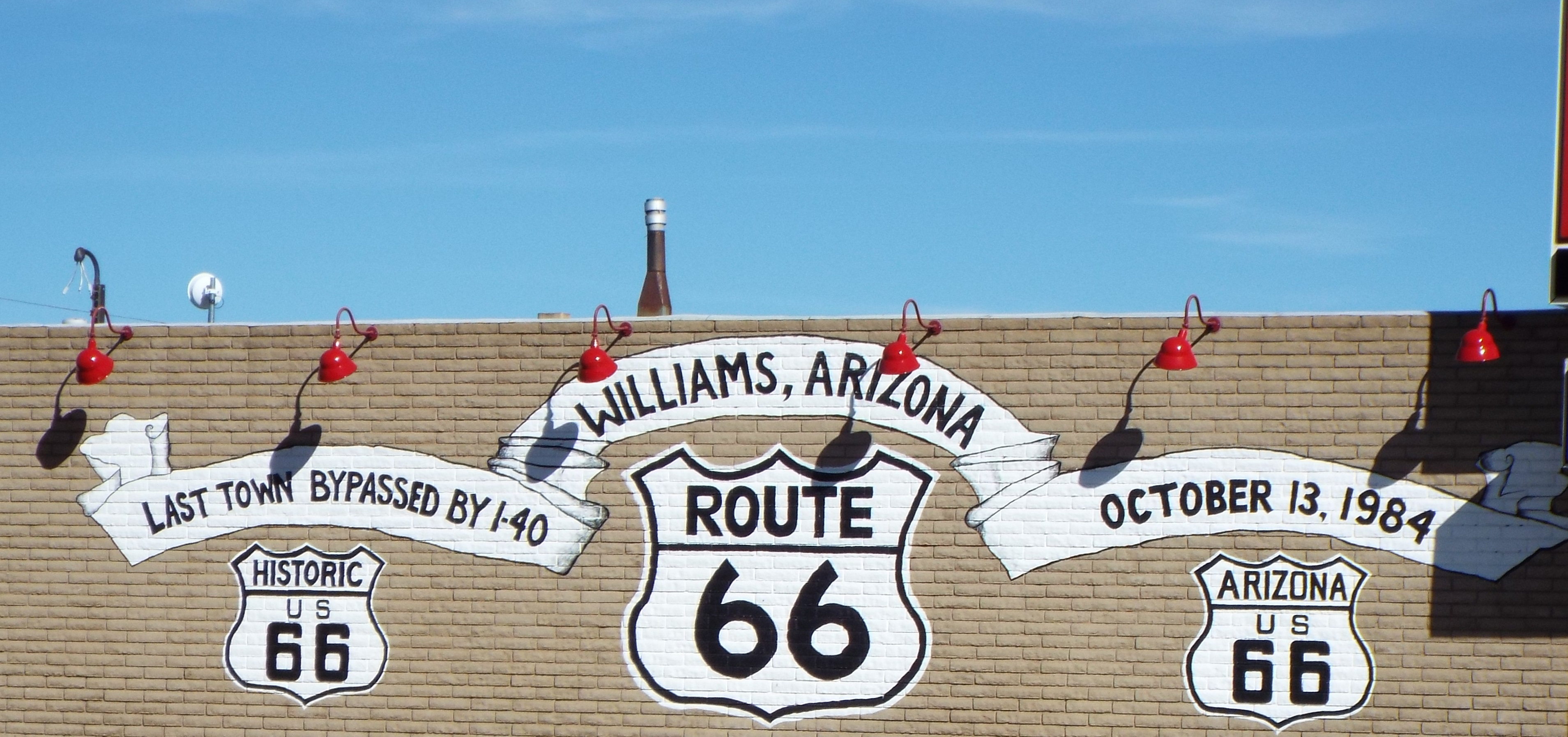 Wall which states: Williams, Arizona Last town to be bypassed by I-40 om October 13, 1984 in Williams, Arizona